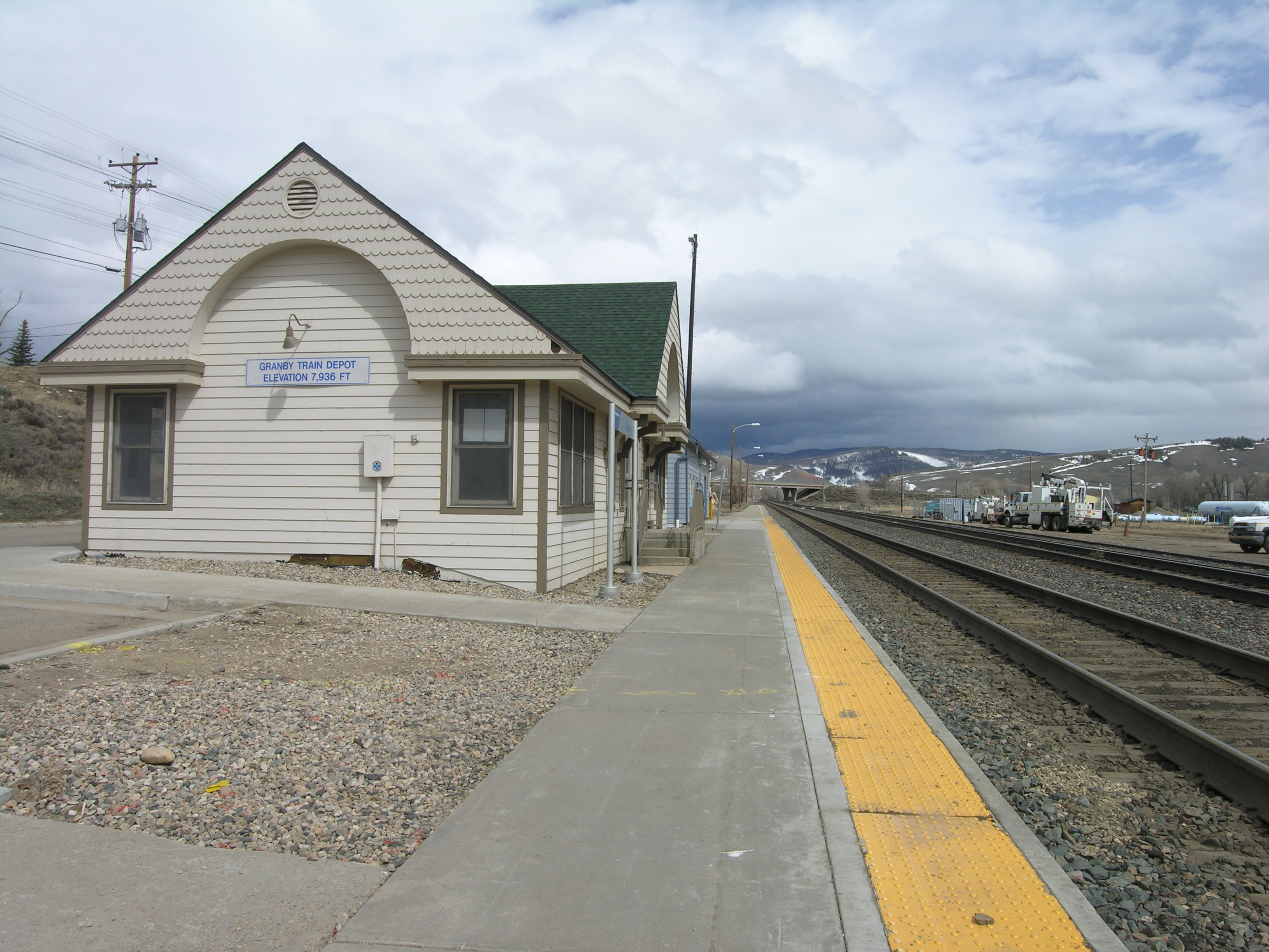 Train station, Granby, Colorado, USA